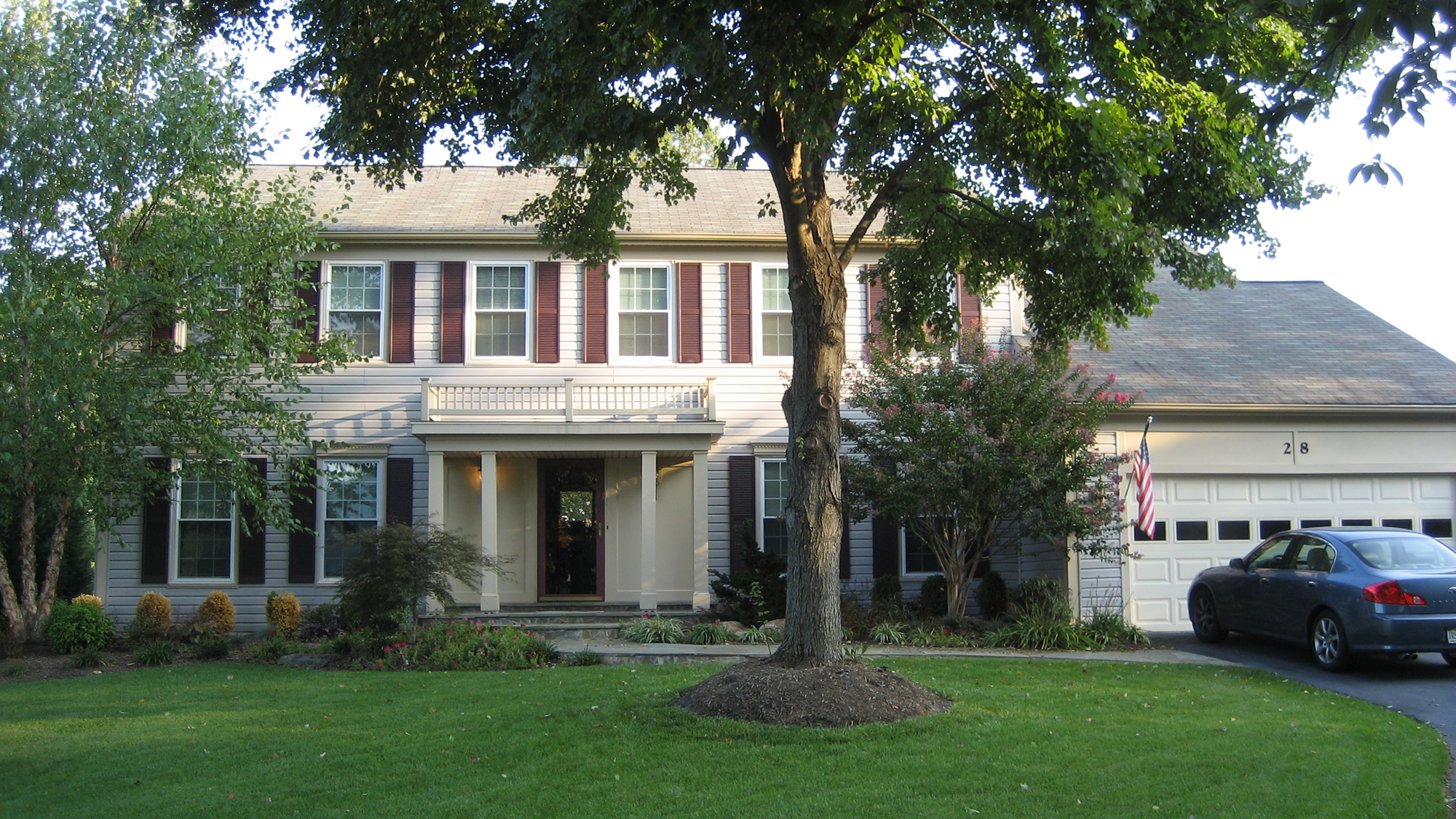 A typical colonial-style single family home in the Countryside subdivision in Sterling, Virginia. This model, known as the "Williamsburg," was built by Pulte Homes in 1984 and has five bedrooms and 3.5 baths and is valued at approximately $505,000.